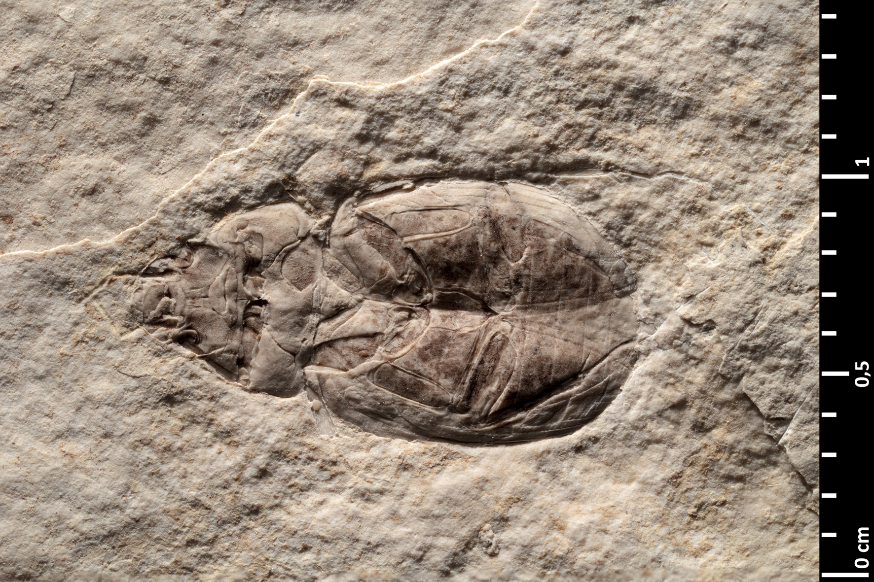 The Limnoxenus olenus holotype counterpart specimen with direct lighting. Chattian, Oligocene; Niveau du gypse d'Aix Formation, Aix-en-Provence, Bouches-du-Rhône, Provence-Alpes-Côte d'Azur, France Muséum national d'Histoire naturelle specimen MNHN.F.A32835